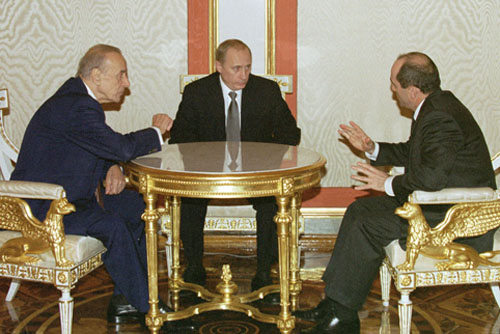 THE GRAND KREMLIN PALACE, MOSCOW. A trilateral meeting between Presidents Vladimir Putin of Russia, Heidar Aliyev of Azerbaijan and Robert Kocharian of Armenia.